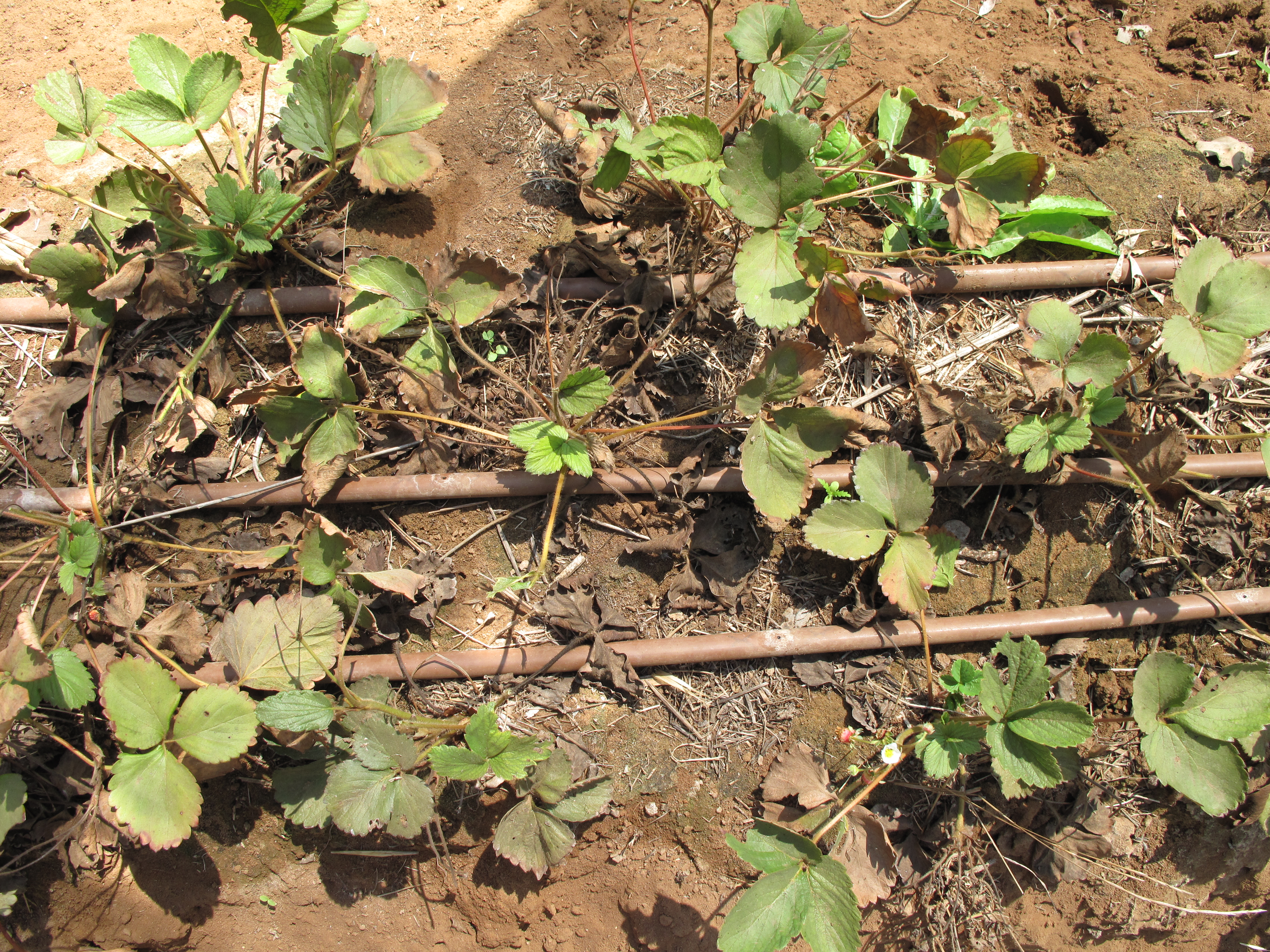 Drip irrigation pipeline parts, Shefa Farm, Rishpon, Israel.